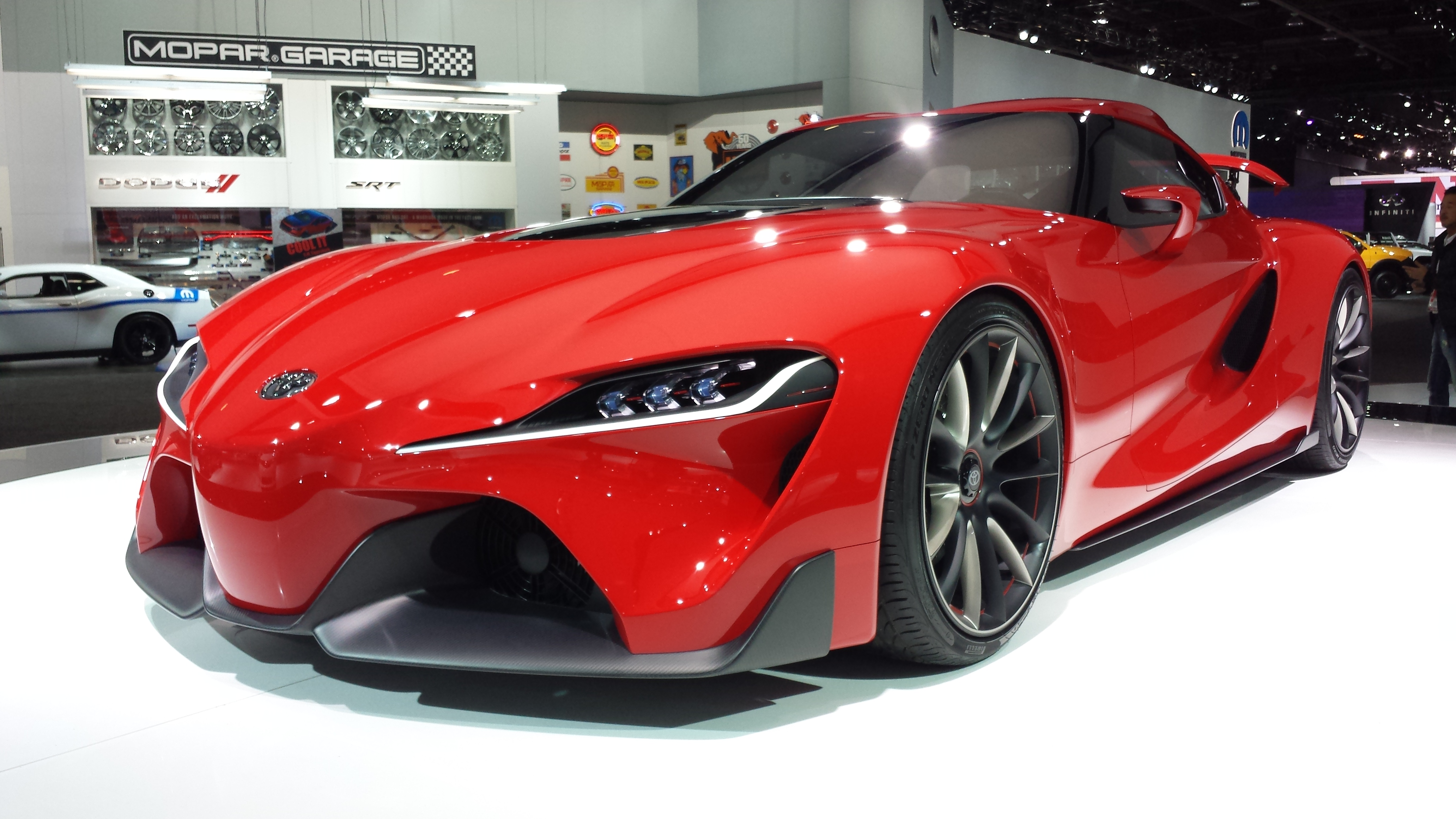 Toyota’s Calty Design Research Celebrates Its 40th Year and a Rich Sports Car Design Heritage